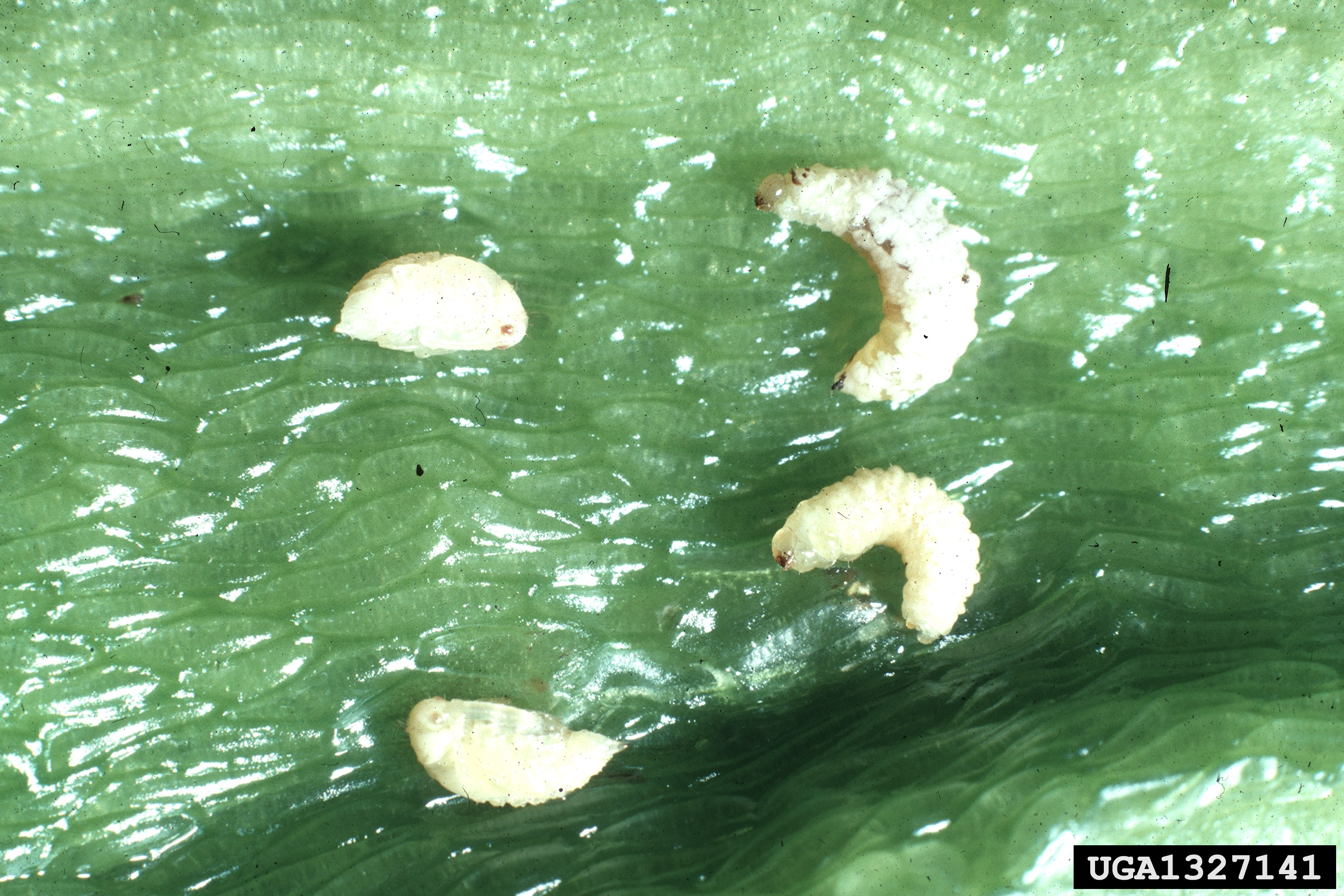 Anthonomus eugenii on Capsicum: Grubs and pupae. All immature stages occur inside of fruiting structures (buds and pods)